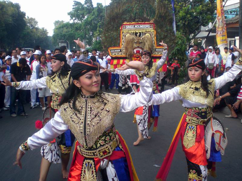 Reog Ponorogo